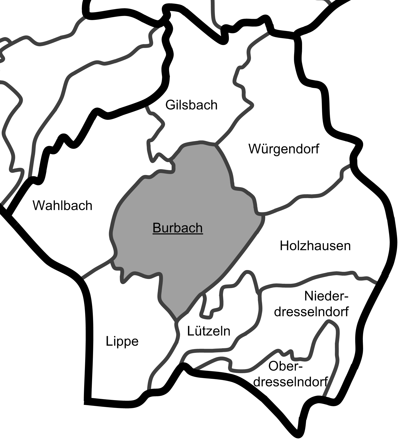 Location of Burbach within the community Burbach.